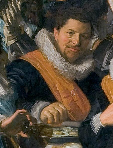 Frederik Coning, detail of Officers of the St. George Civic Guard, Haarlem